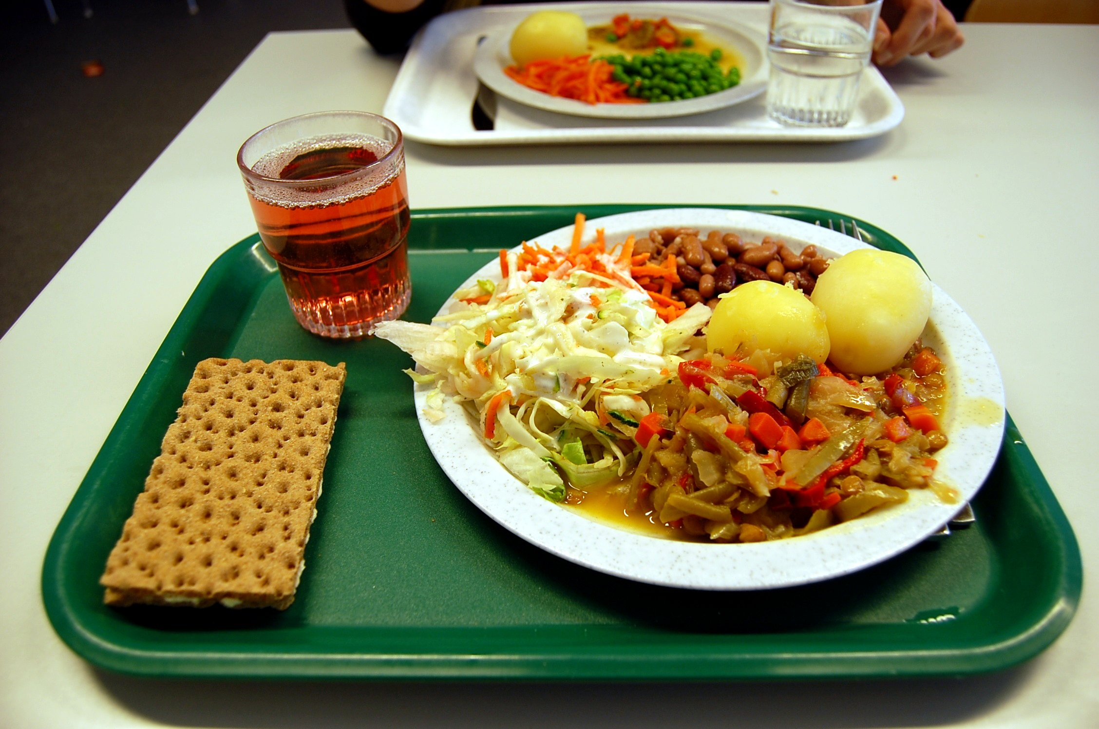 The standard Swedish lunch. The crackers on the left can be found in any US market. Very popular in Sweden with smor (butter) or margarin (margarine) This week was vegetarian week, but almost all lunches have this many vegetables. Swedish food is very wholesome.